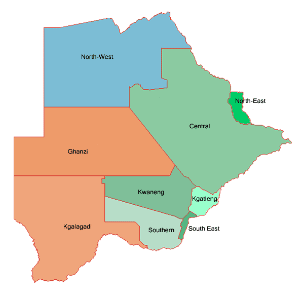 Map of Botswana and its districts.